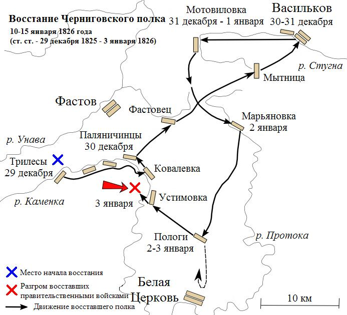 Map of Chernigov Regiment revolt Dec.29, 1825 - Jan 03, 1826 (old style). Legend transliterated from modern Ukrainian spelling.